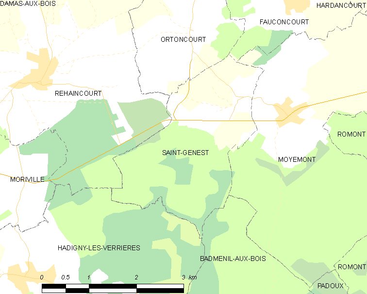 Map of French municipality Saint-Genest